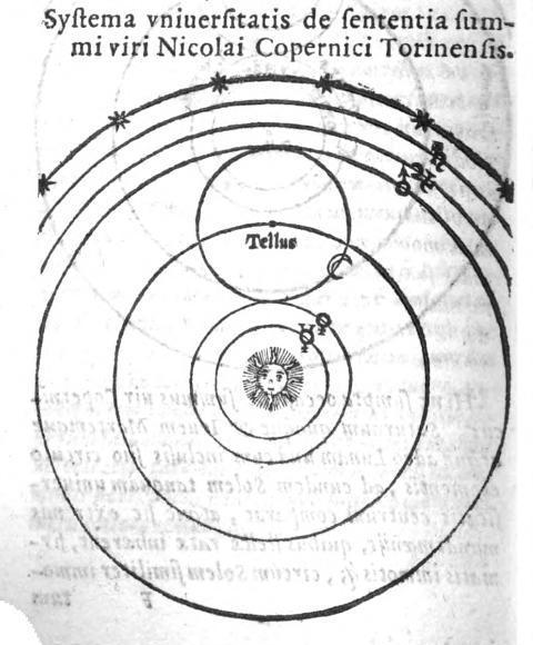 Naboth's representation of Copernicus' heliocentric model